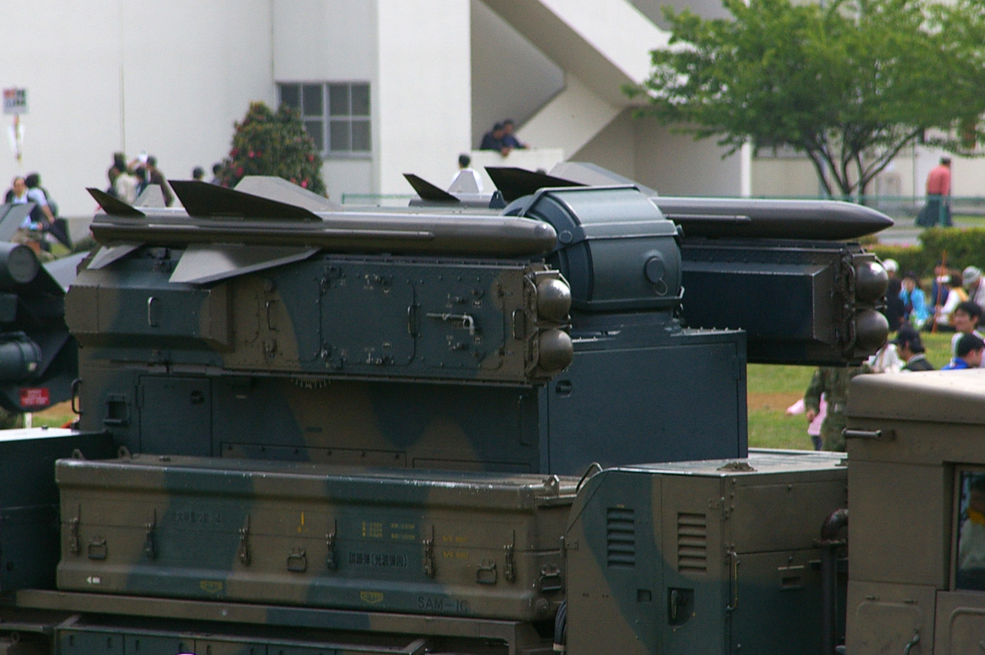 Taken by Los688,29-Apr-2008,JGSDF Camp-Shimoshizu.JGSDF Type 81C Surface-to-Air Missile,Air Defence Artillery School unit. ja:2008年4月29日、投稿者撮影。陸上自衛隊下志津駐屯地記念行事。81式短距離地対空誘導弾改（発射装置）、高射教導隊。